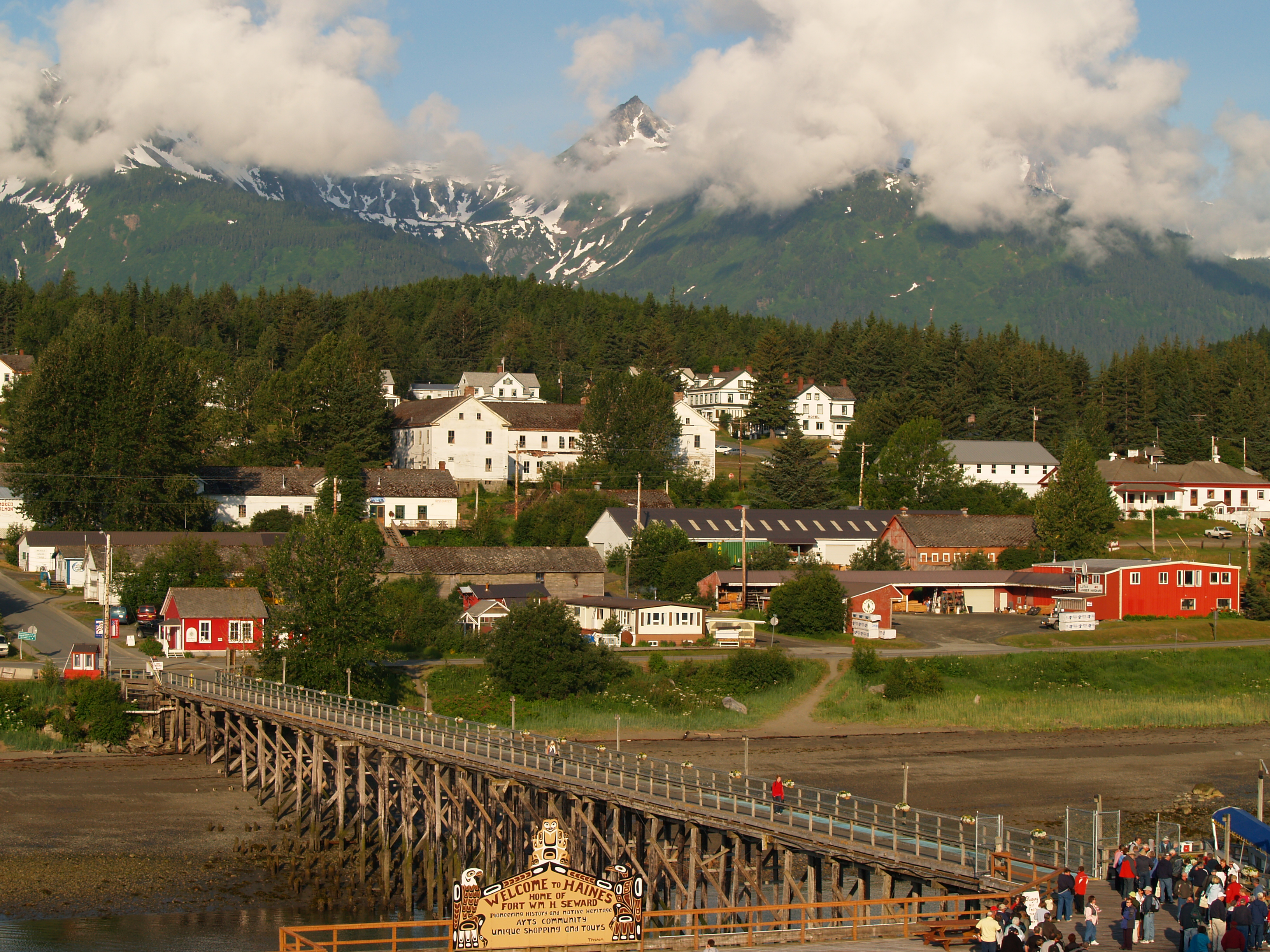 Haines, Alaska, including buildings formerly part of Fort William H. Seward.